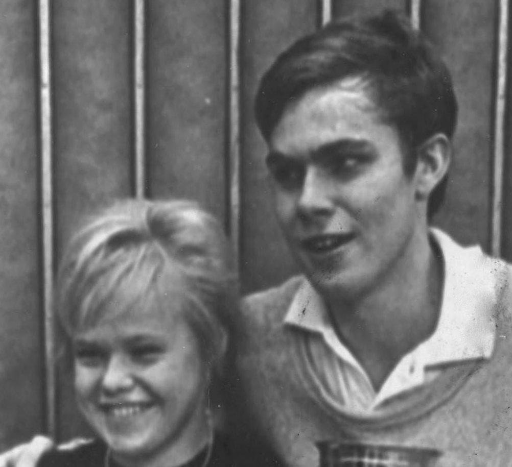 Photograph of the winners of Kungens Kanna and Drottningens Pris (Swedish tennis prizes) of 1965: Birgitta Lindström from Finland and Bengt Åberg from Sweden.